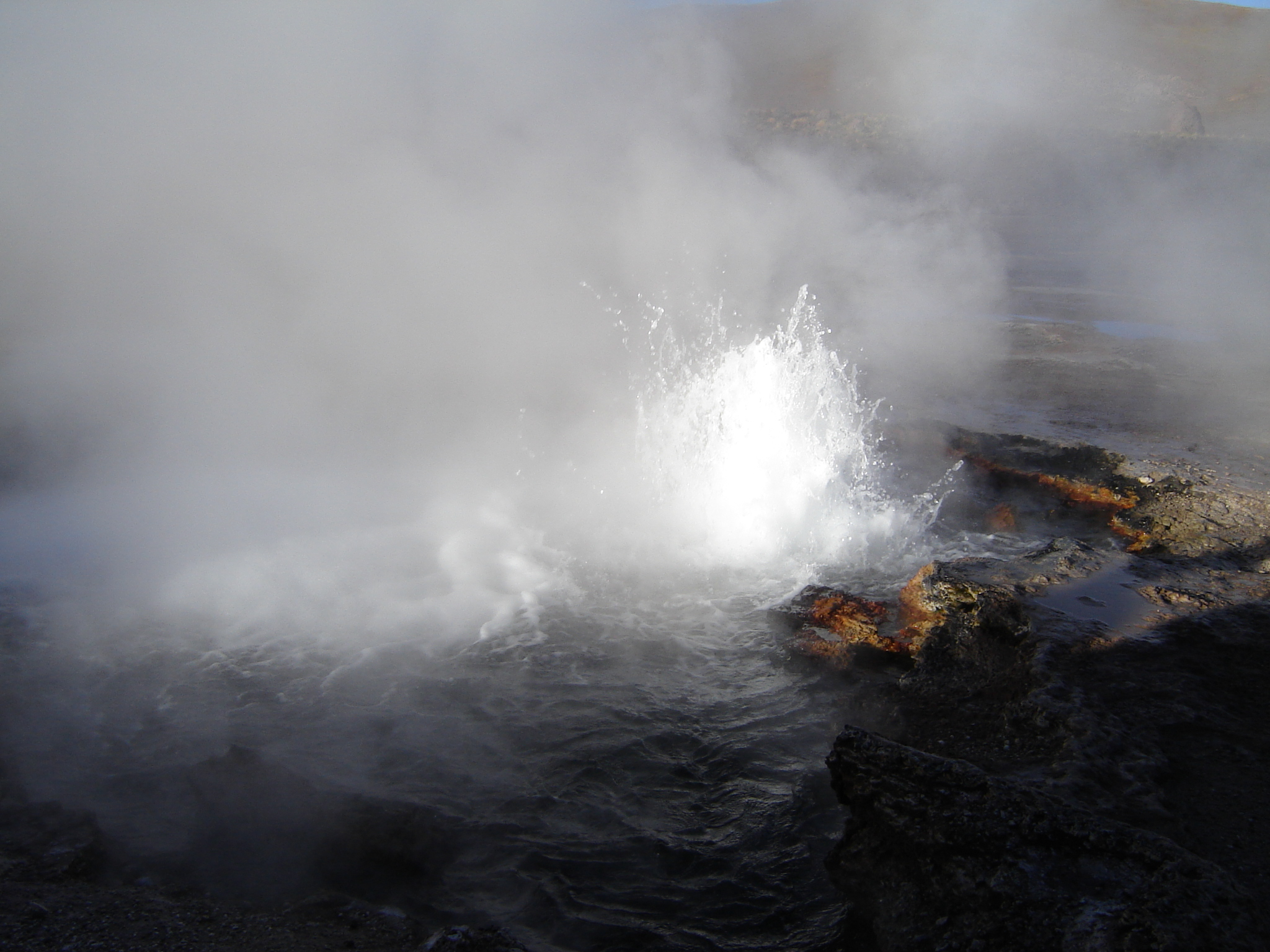 Close-up to one of the geysers in "El Tatio" in San Pedro de Atacama, Chile.